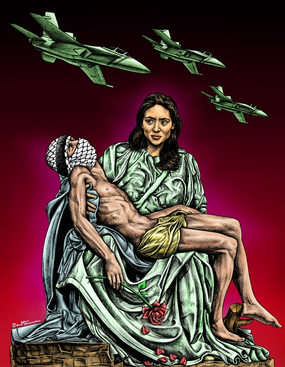 The woman represented here is Anna Baltzer. The illustration is inspired by the famous Michelangelo's Pietà. Reference